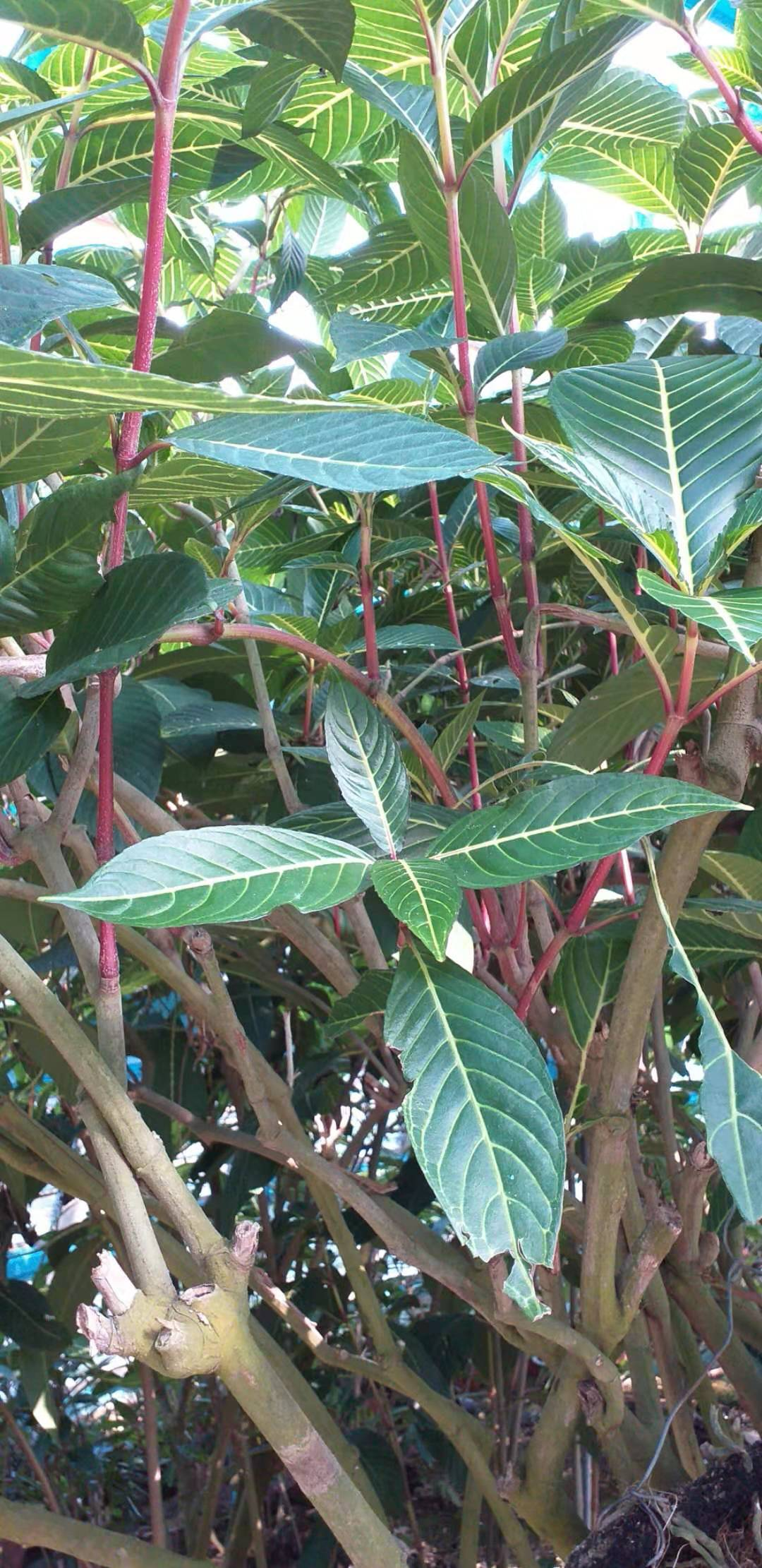 Red young branch of Sanchezia speciosa. Botanical Garden of National Museum of Natural Science, Taichung, Taiwan.